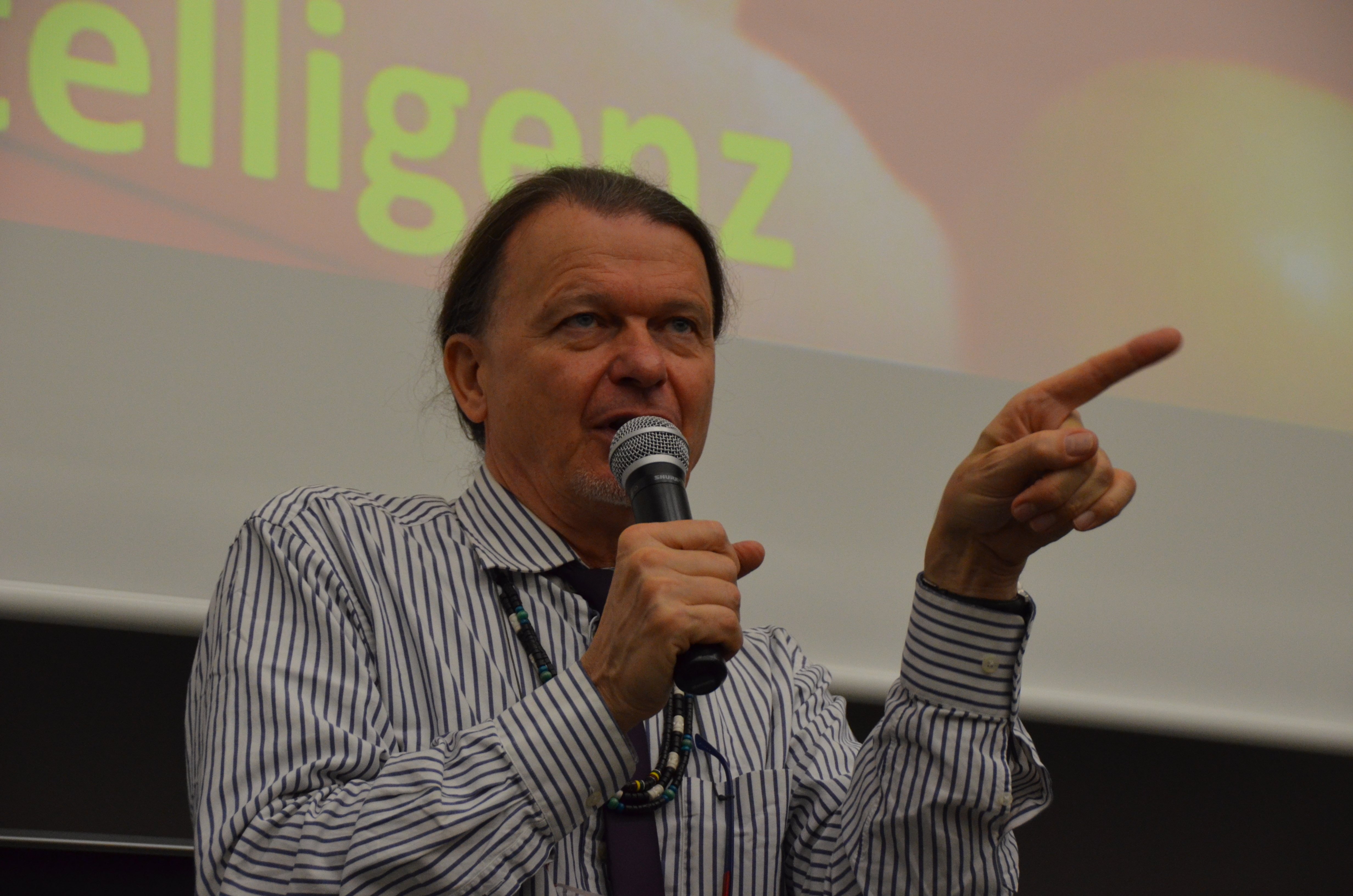 Prof. Dr. Volker Sommer, University College London during his lecture at Senckenberg research institute in 2016.